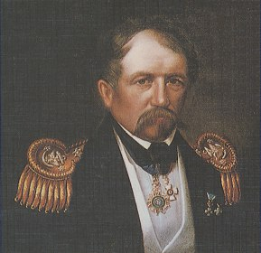 Admiral Karl Rudolf Brommy (1804-1860)